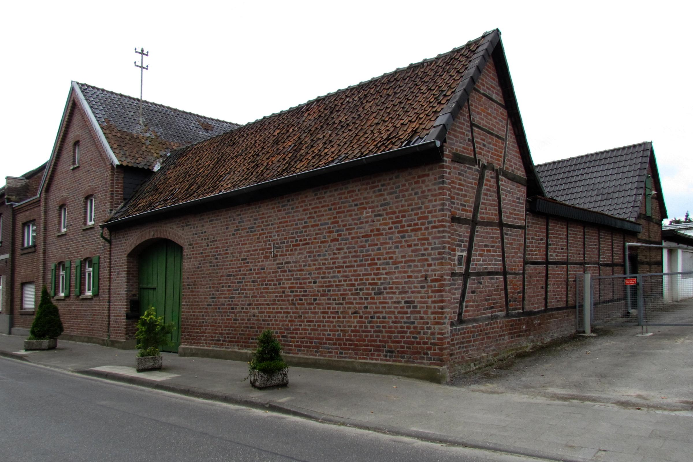 This is a photograph of an architectural monument.It is on the list of cultural monuments of Korschenbroich